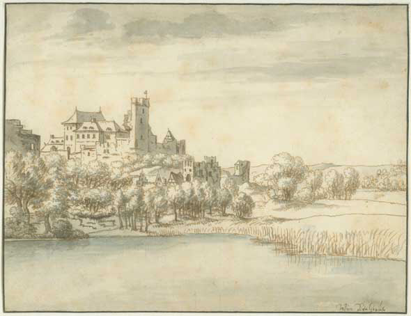 Valkenburg, Limburg, Netherlands. View of Valkenburg Castle, only 3 years before its final destruction (drawing by Josua de Grave, 1669).